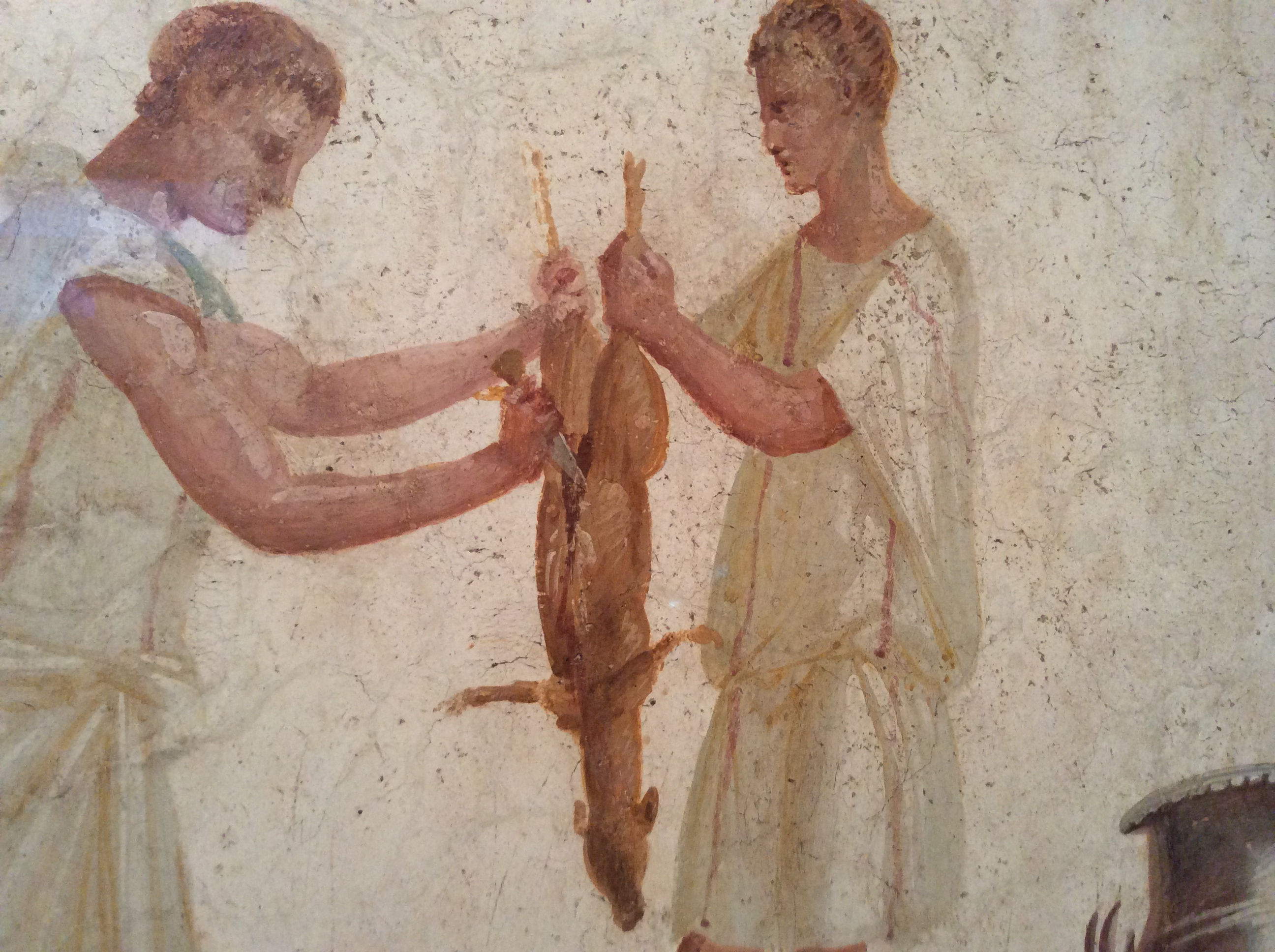 Detail of Roman wall painting of cooks preparing a kid